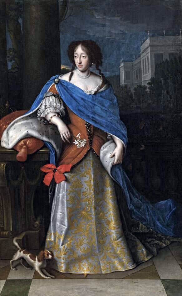 Portrait of Henriette Adelaide of Savoy, wife of Elector Ferdinand Maria of Bavaria